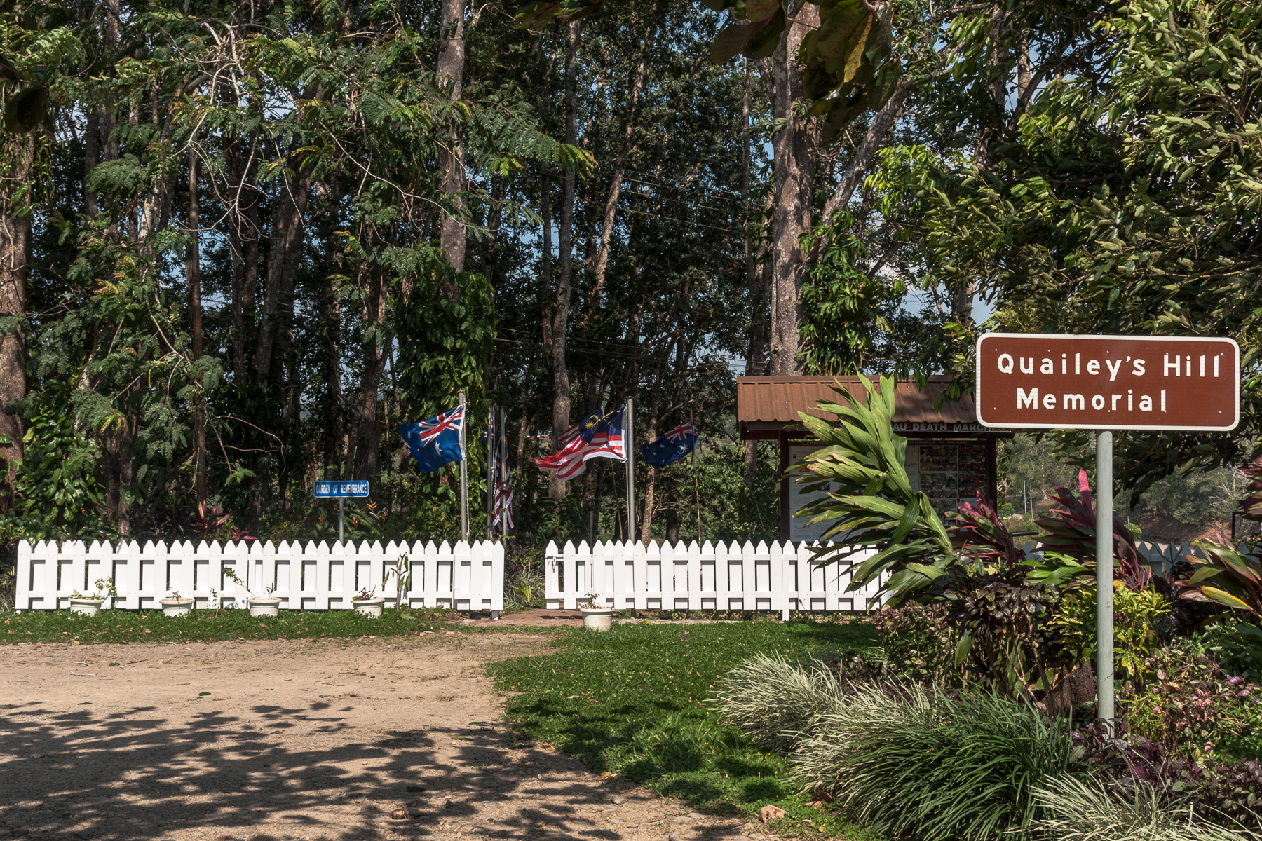 Ranau, Sabah: Quailey's Hill Memorial, Plate at the route A4